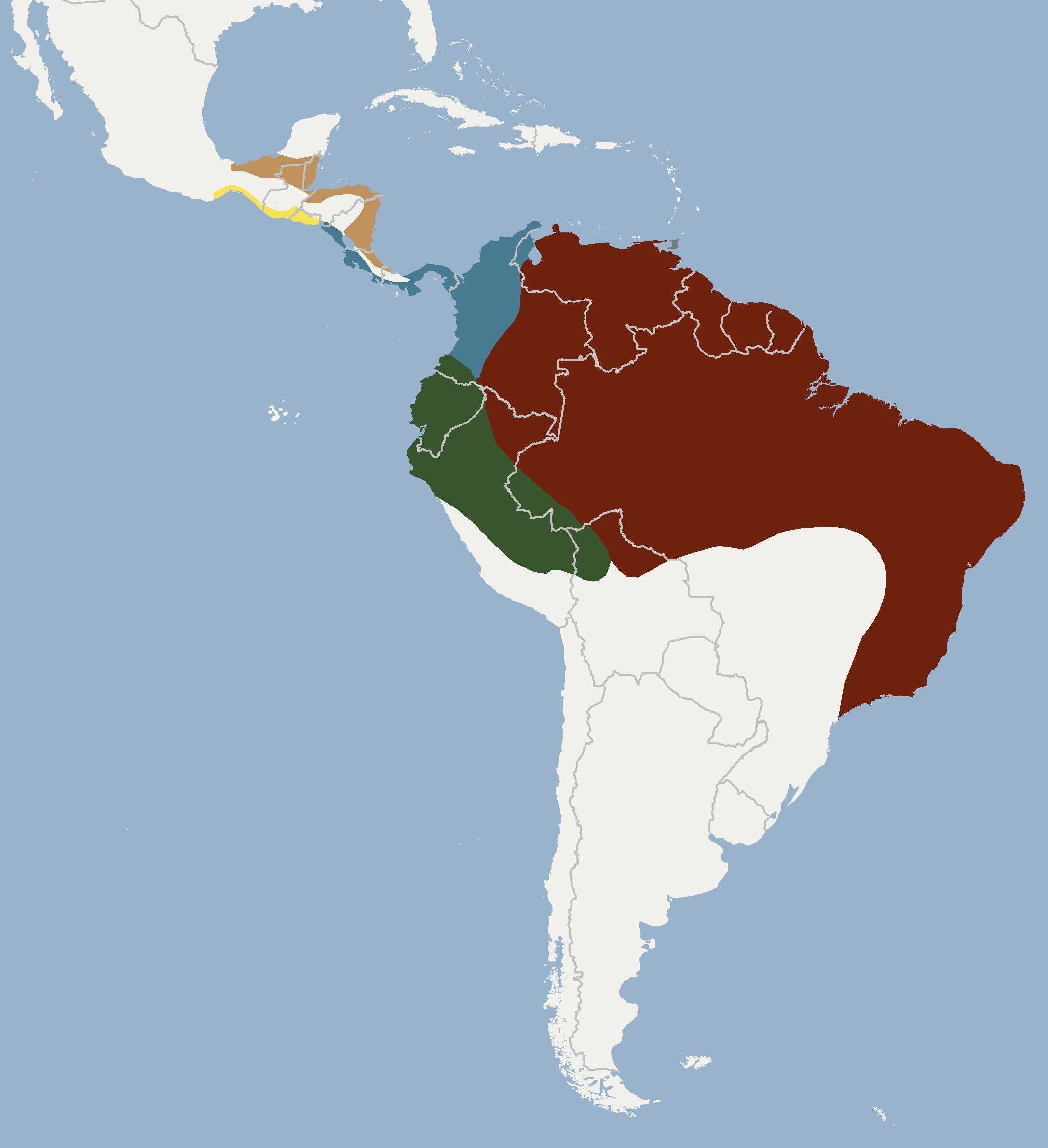 according to Baker & Clark, 1987 U.b.bilobatum U.b.convexum U.b.davisi U.b.molaris U.b.thomasi U.b.trinitatum